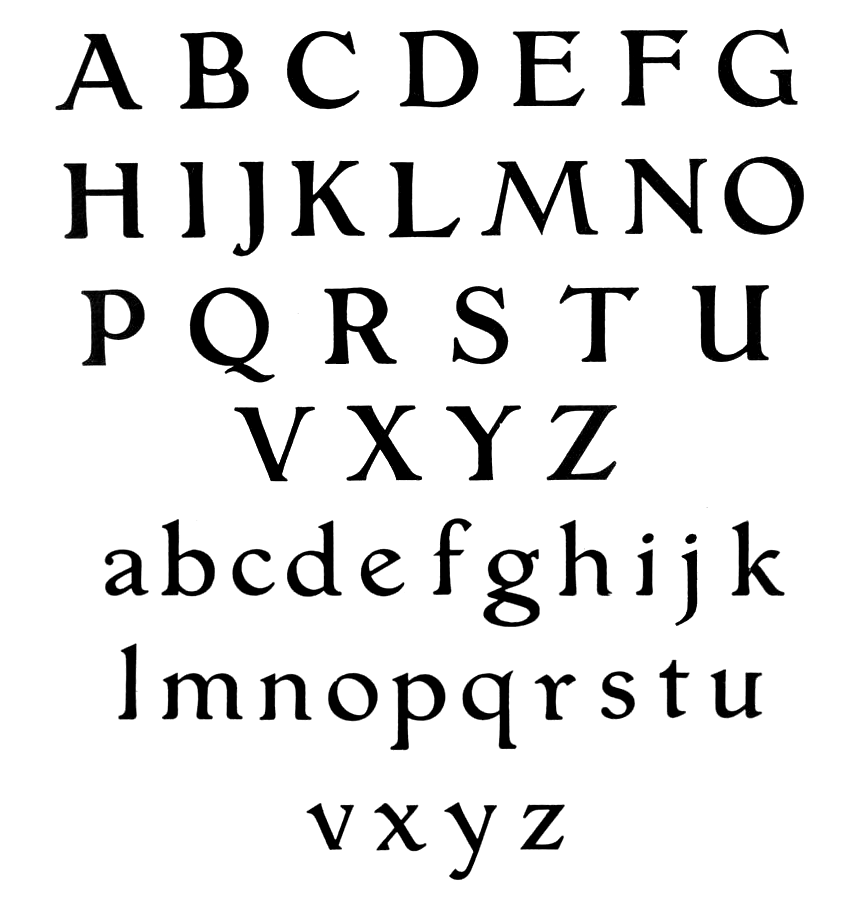 Grasset typeface specimen cropped from Thibaudeau 1924